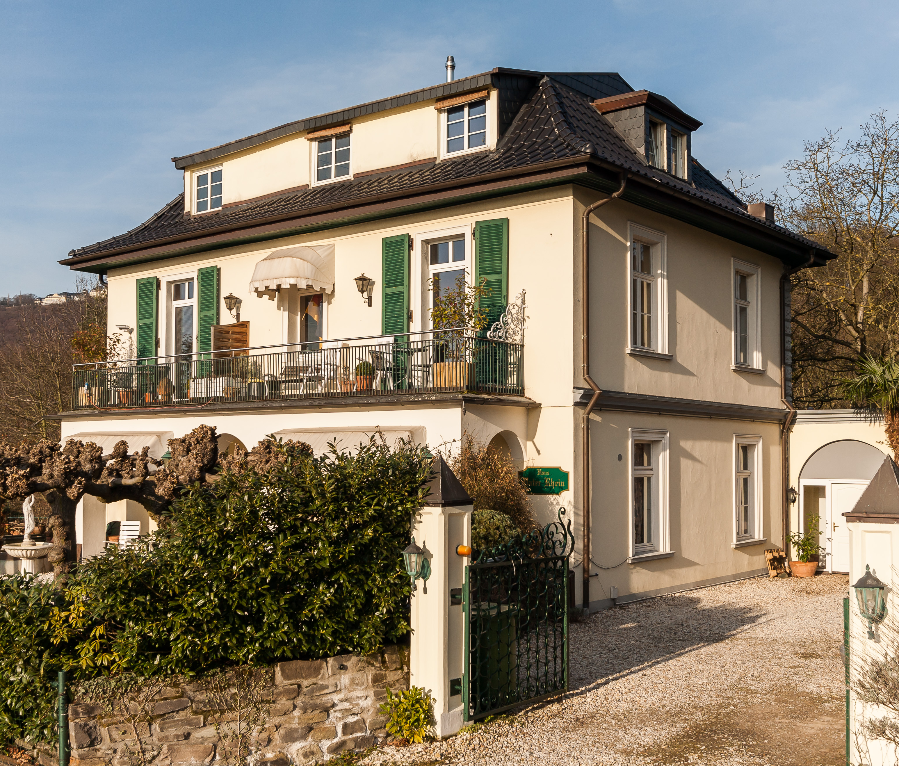 “Haus Vater Rhein”, former Hotel “Vater Rhein”, Drachenfelsstraße 69, Königswinter